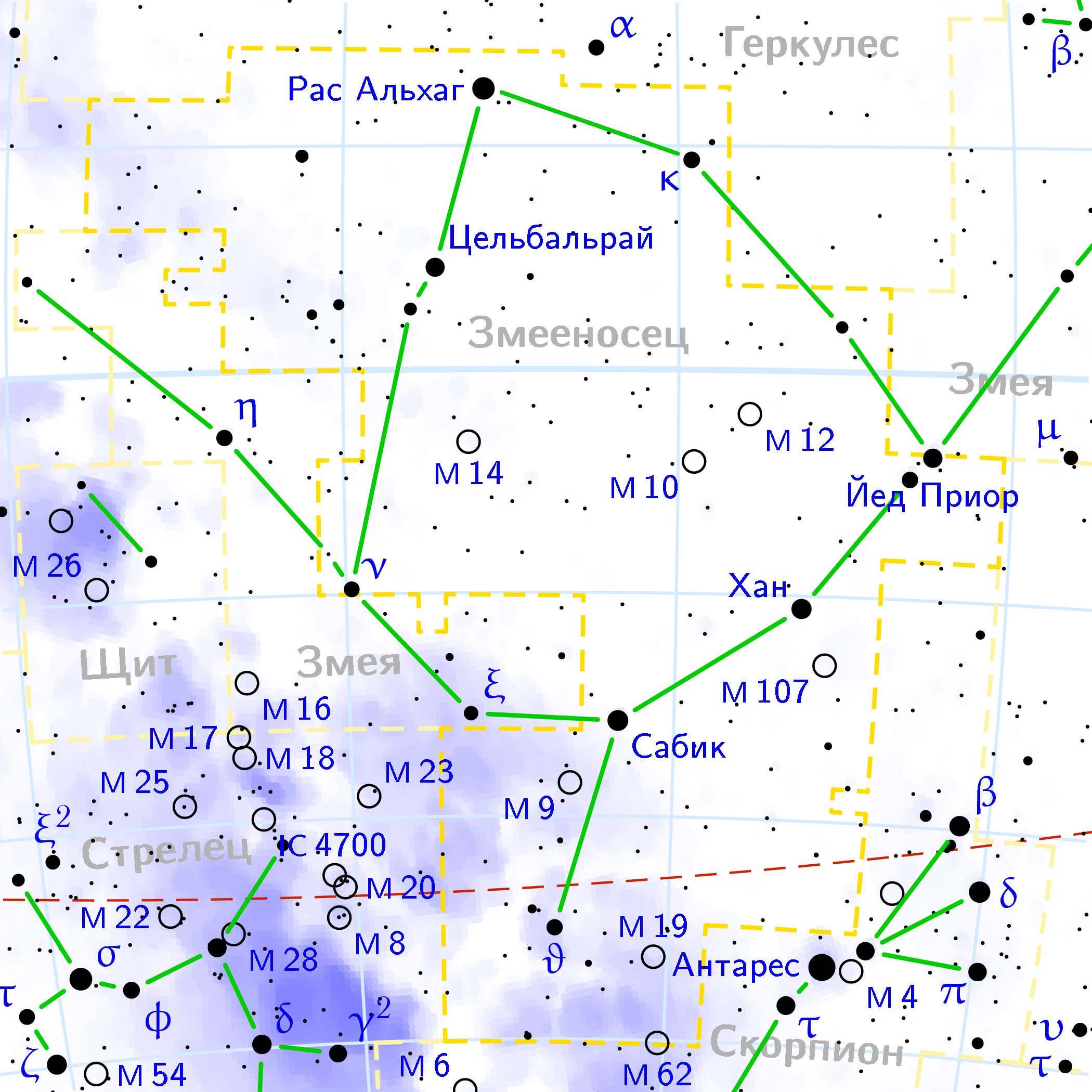 Ophiuchus constellation map on Russian